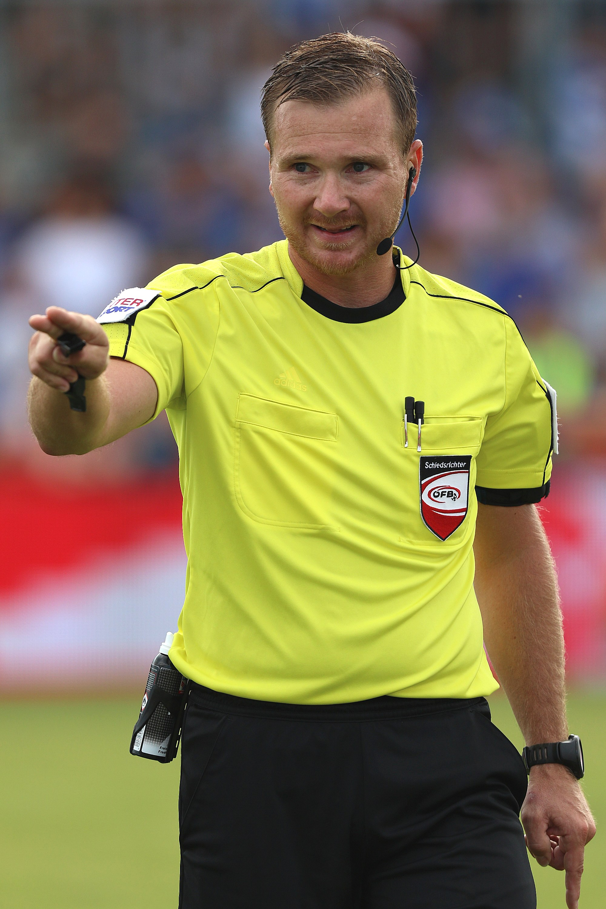 2017–18 Austrian Cup - ASK Ebreichsdorf (blue shirts) vs. FK Austria Wien (orange shirts) 0-0, penaltyscore 3-4. – The photo shows Schiedsrichter Dieter Muckenhammer refereee Dieter Muckenhammer